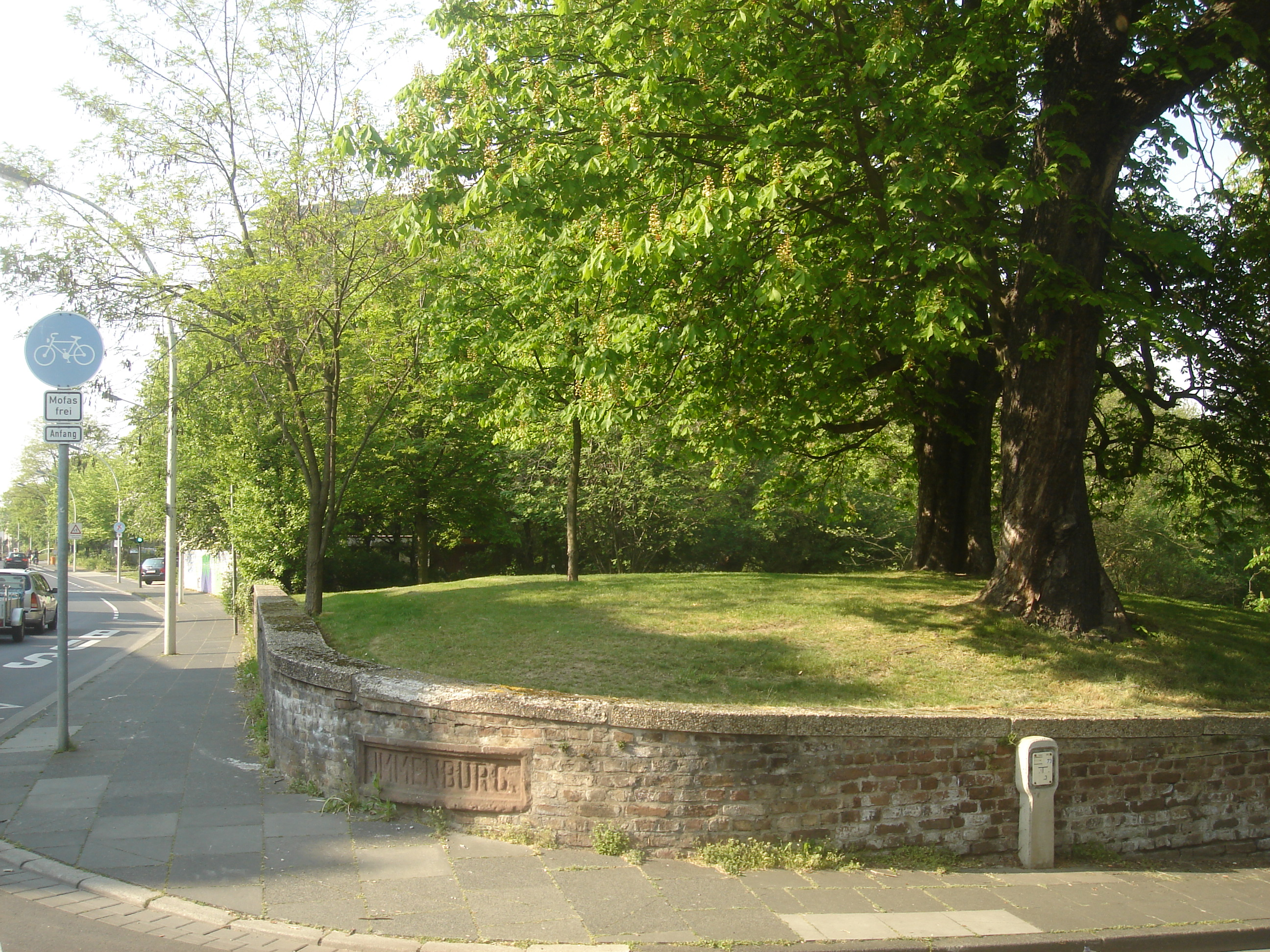 Park at the site of the former castle / estate Immenburg in Bonn-Endenich, Germany.